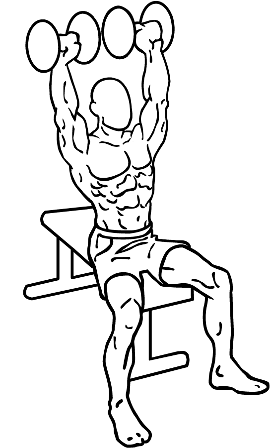 an exercise of shoulders